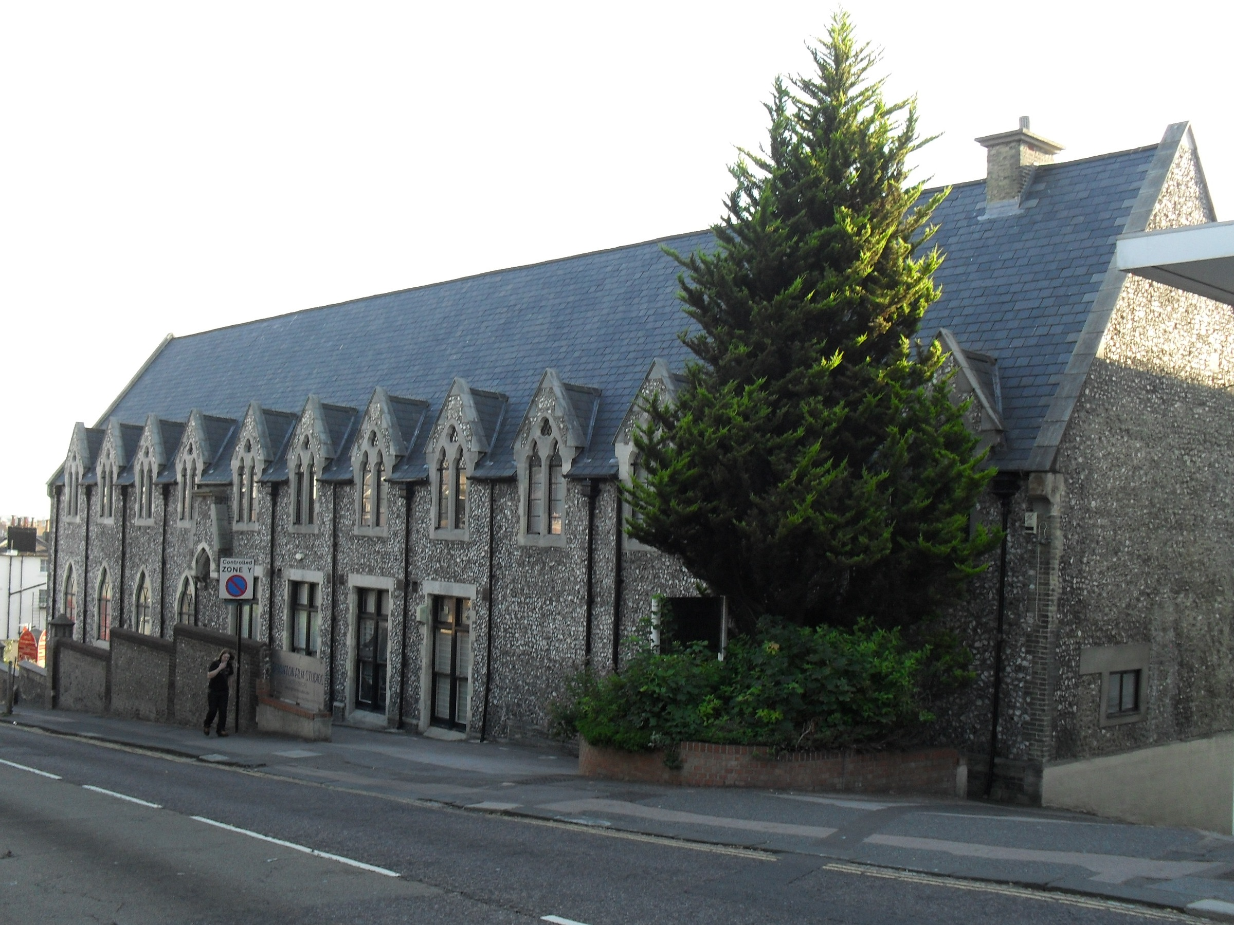 Brighton Forum (formerly Brighton Business Centre), Viaduct Road/Ditchling Road junction, Brighton, City of Brighton and Hove, England. Built in 1854 by William and Edward Habershon as the Diocesan Training College for Female Schoolmistresses; later used by the Royal Engineers as a base and then as their records archive. This view is from the northeast, looking at the east elevation. Listed at Grade II by English Heritage (IoE Code 480569)